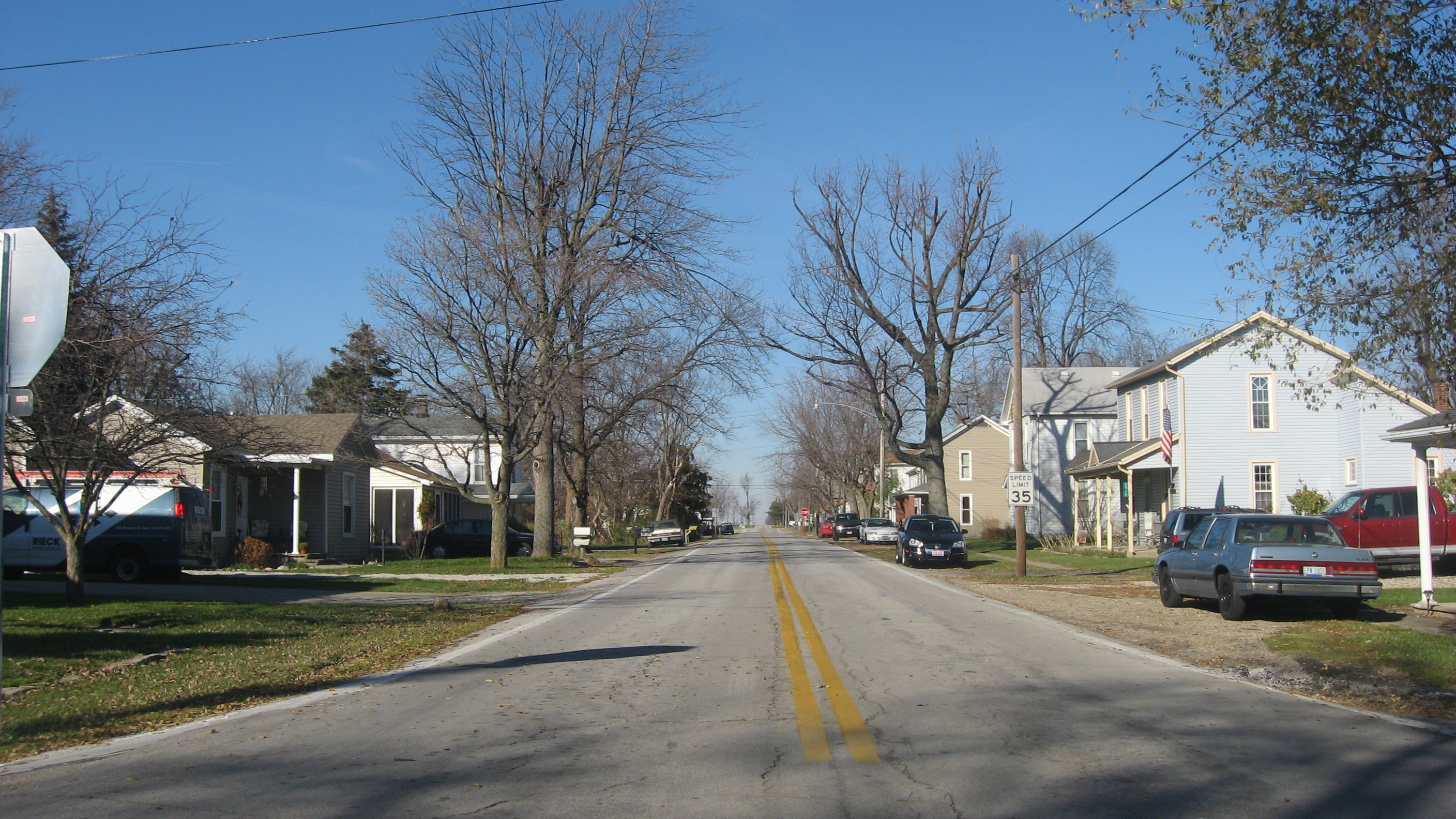 Looking north on Sulphur Springs Road from the Providence Road intersection in Pyrmont, Ohio, United States.